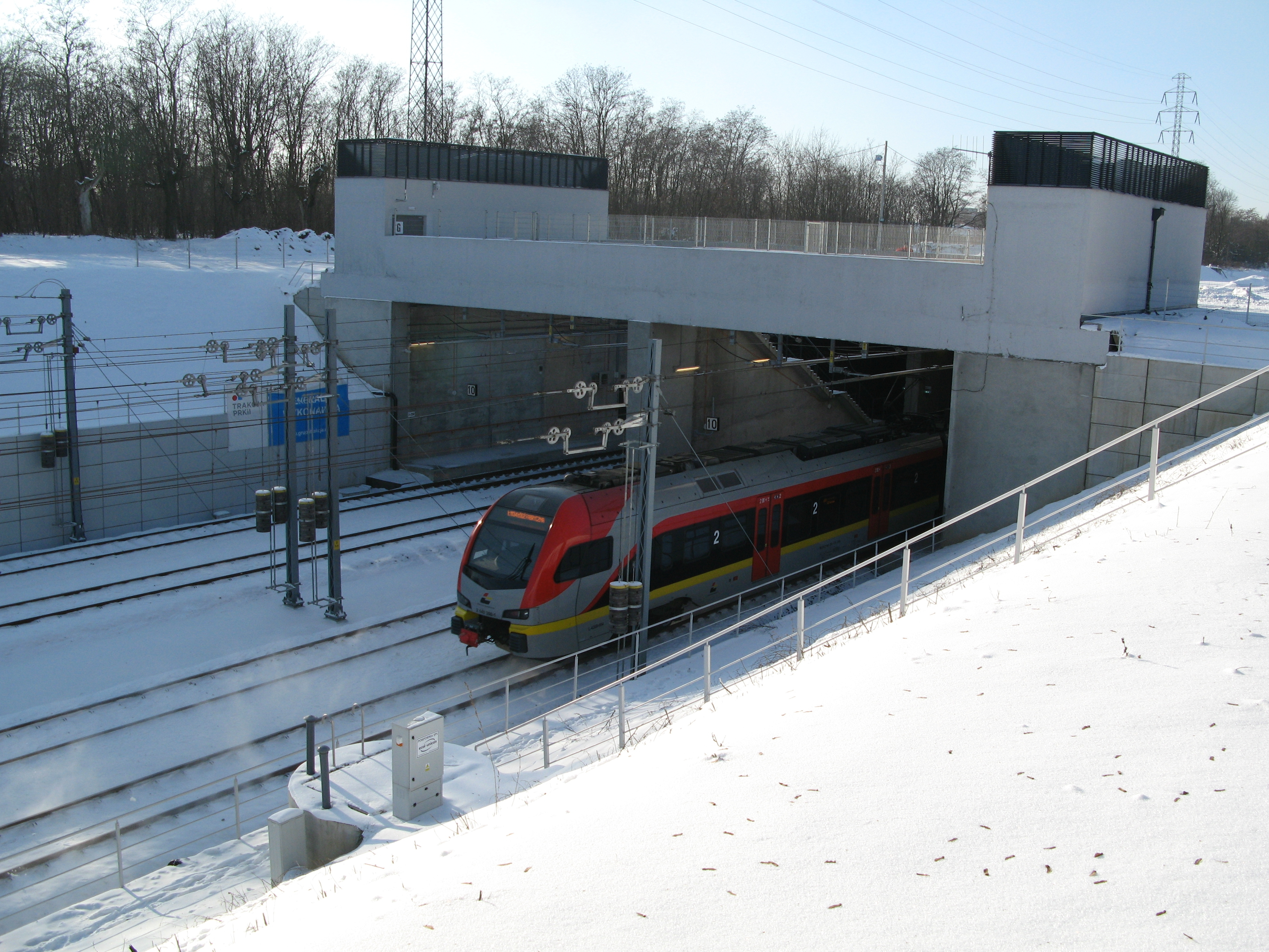 The train is entering to the Łódź Fabryczna tunnel, winter 2017